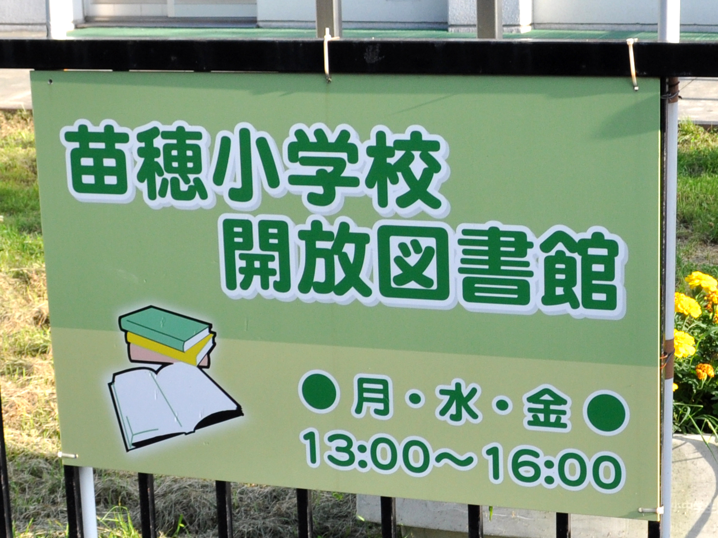 Sign of open school library in Sapporo, Hokkaido, Japan. Specified school libraries in Sapporo are open to public. This sign is at Naebo Elementary School.